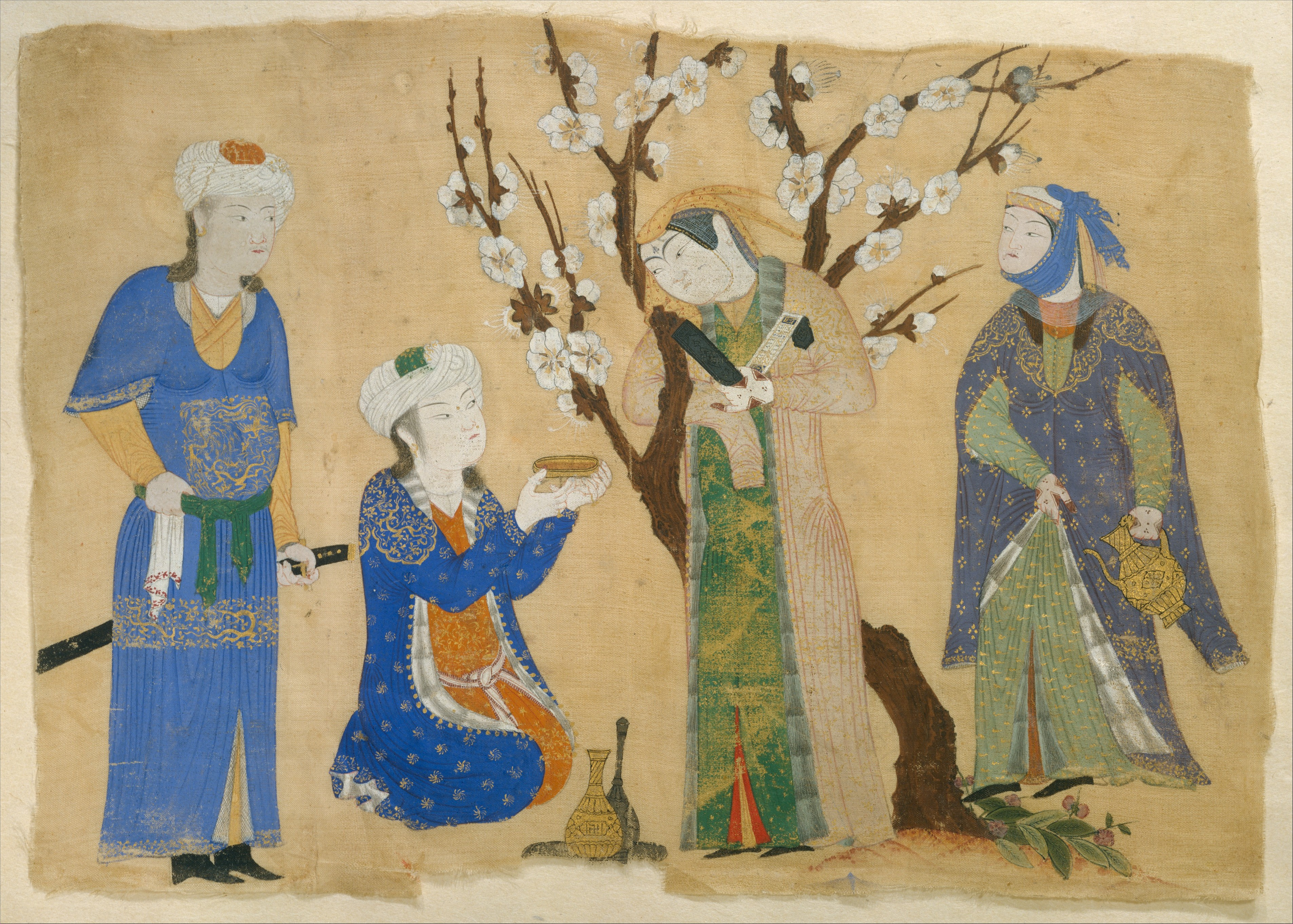 Illustrated album leaf or single work; Codices